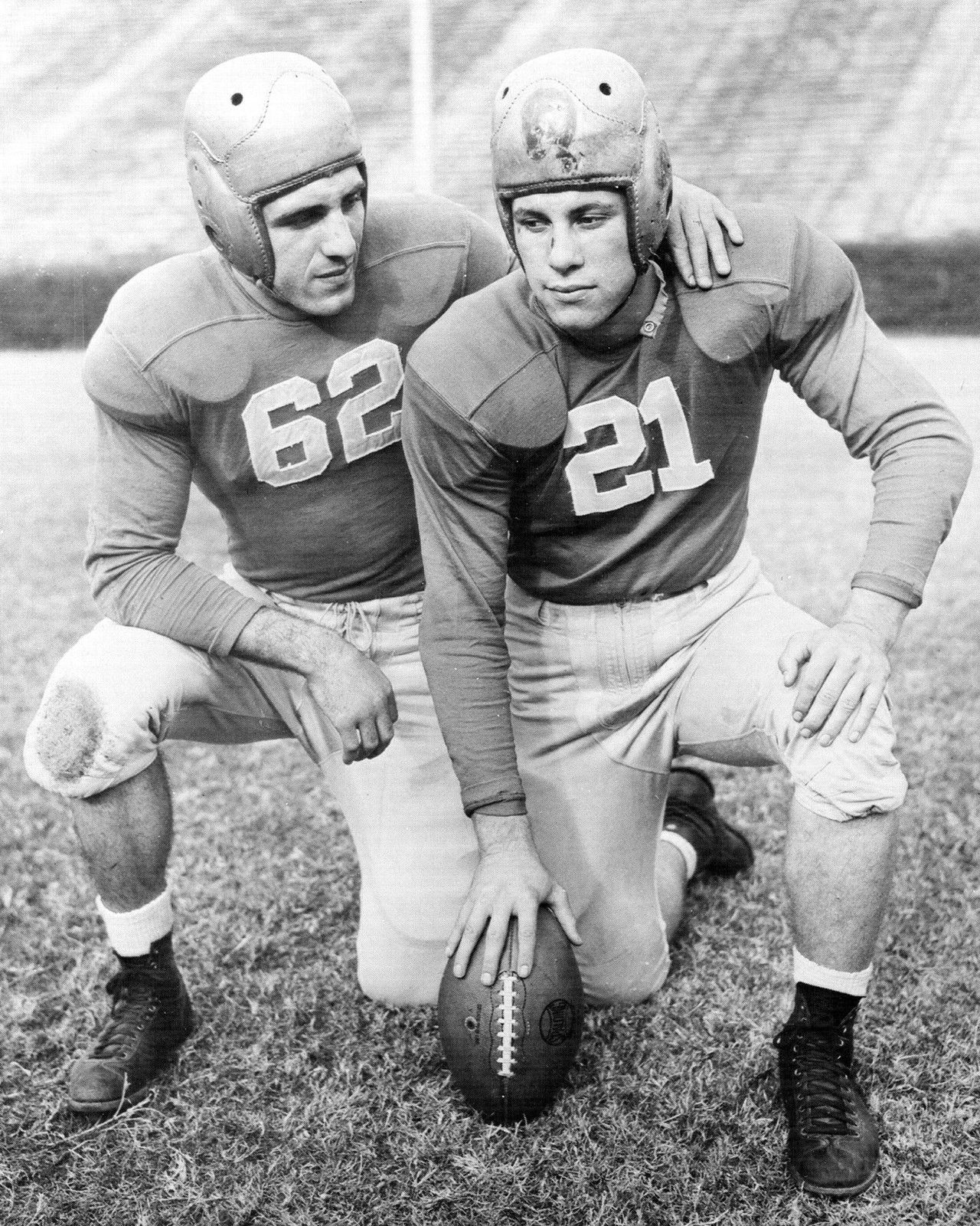 Charley Trippi and Frank Sinkwich posing together while playing for the Georgia Bulldogs football team.